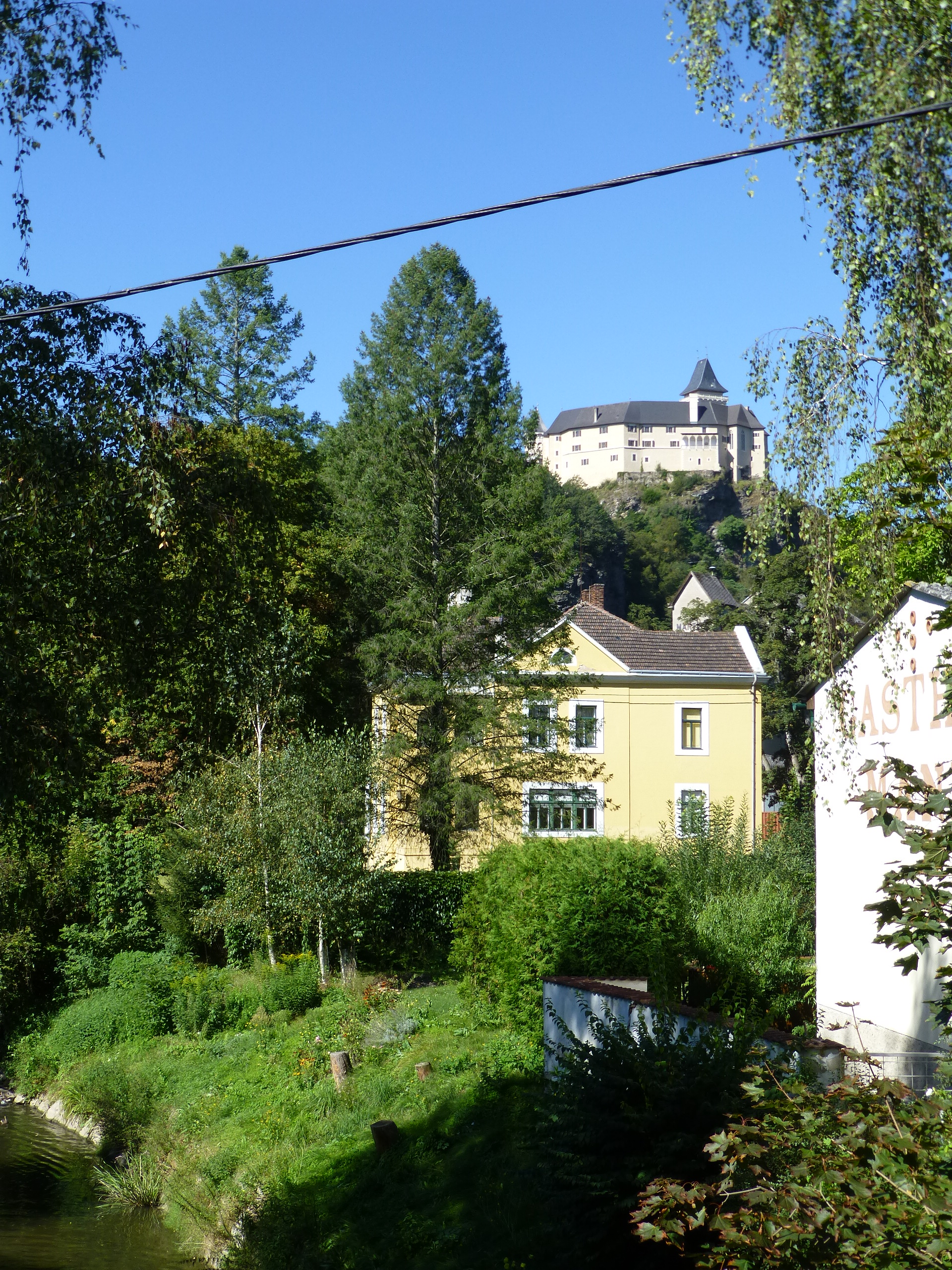 Kamp river in Rosenburg-Mold, view towards Schloss Rosenburg.